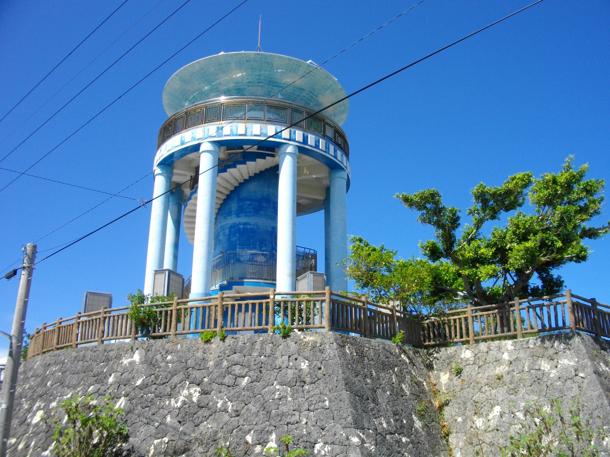 Santinmoo Observation Deck